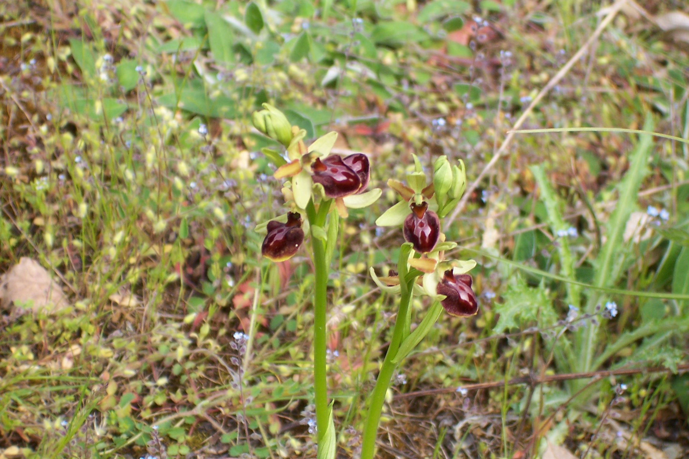 probably Ophrys sphegodes group